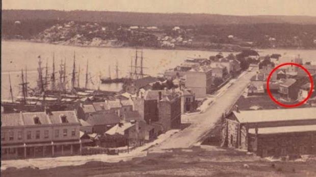 Sepia photo of Darling House in 1800's